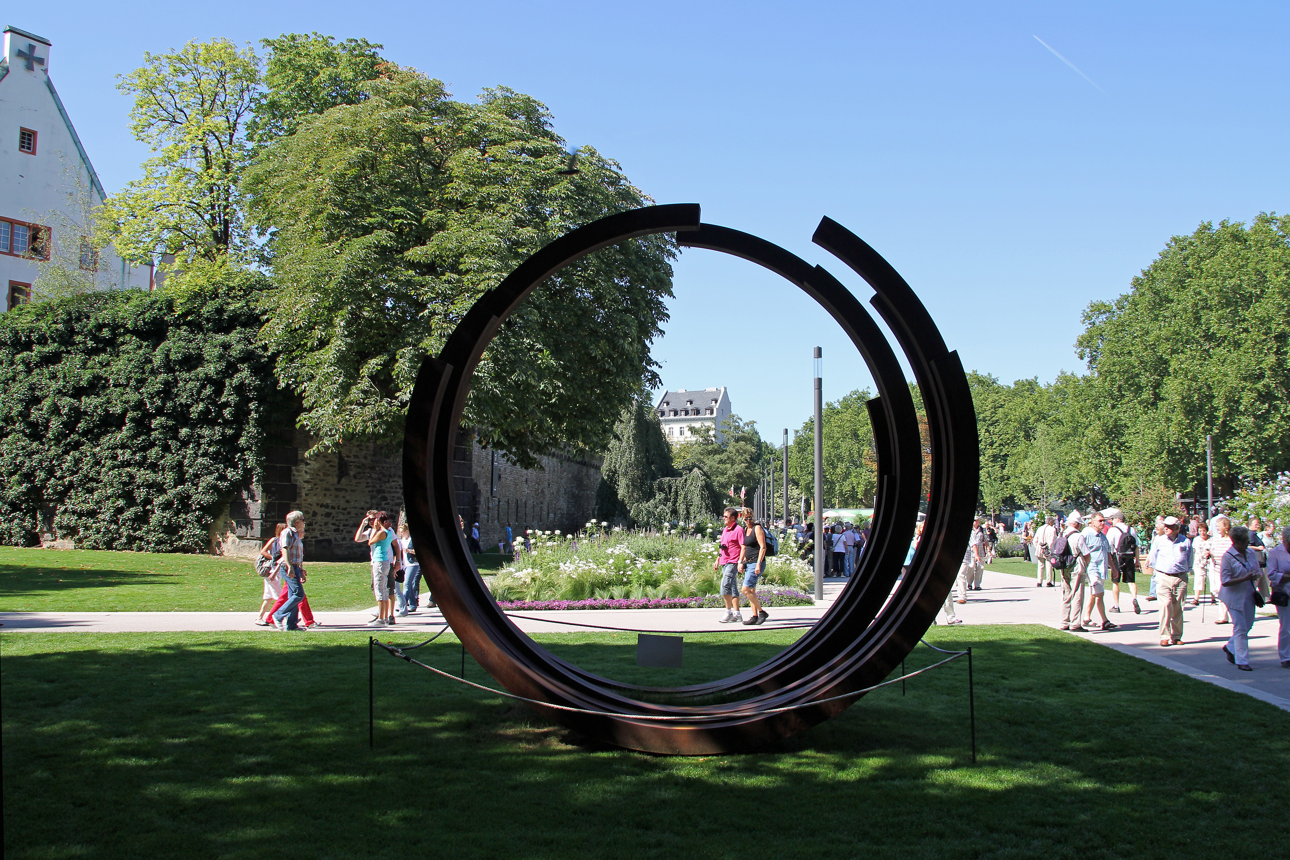 Federal Horticultural Show 2011 in Koblenz - Blumenhof at Deutsches Eck